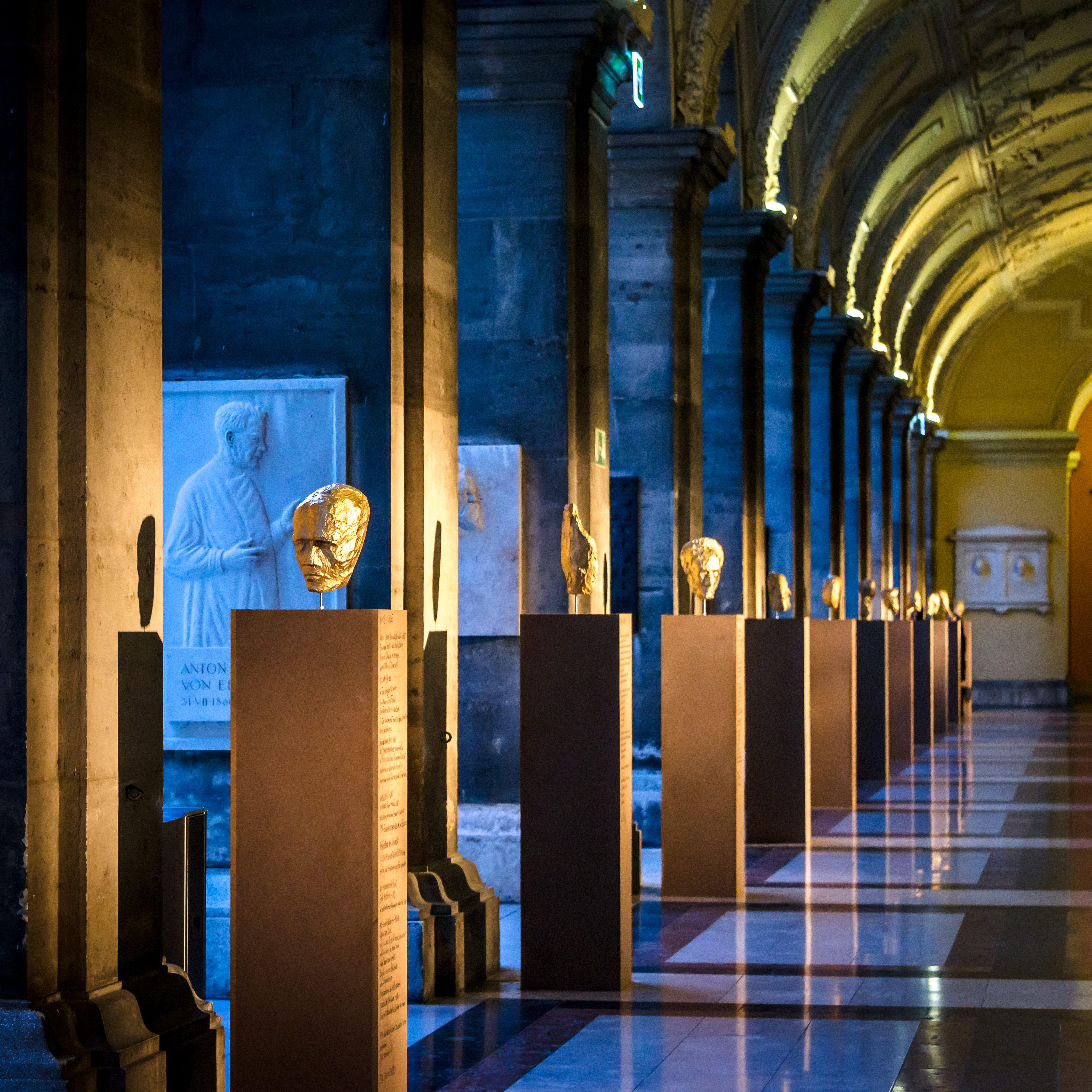 Marianne Maderna: RADICAL BUSTS at the Univesity of Vienna